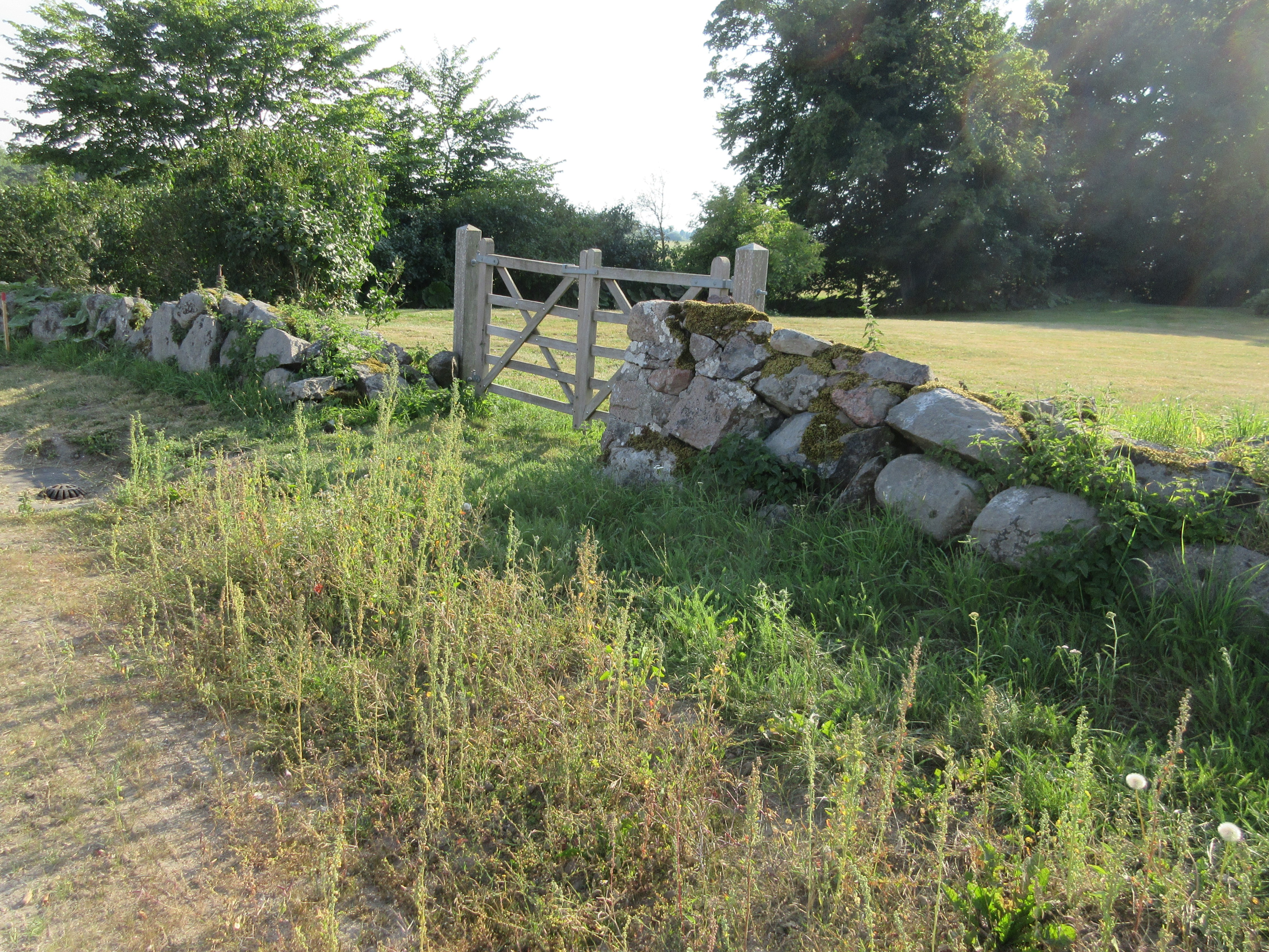 Stone wall at Strandegård, Denmark